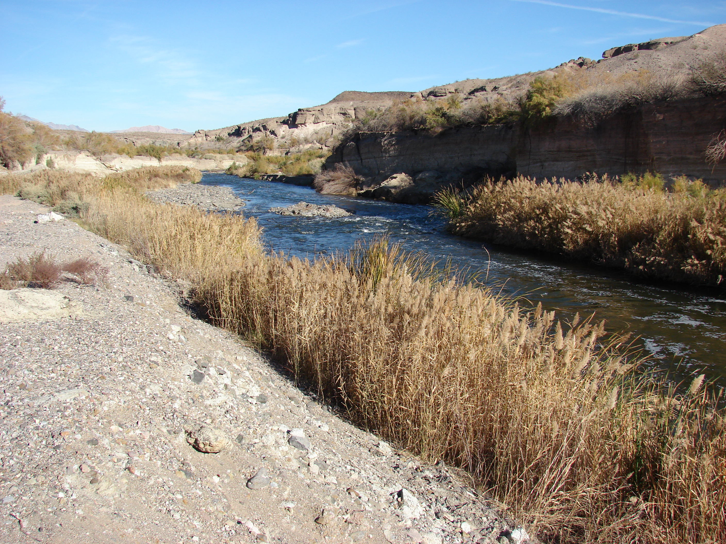 Phragmites australis (habit along wetland). Location: Nevada, Wetlands Trail Lake Mead